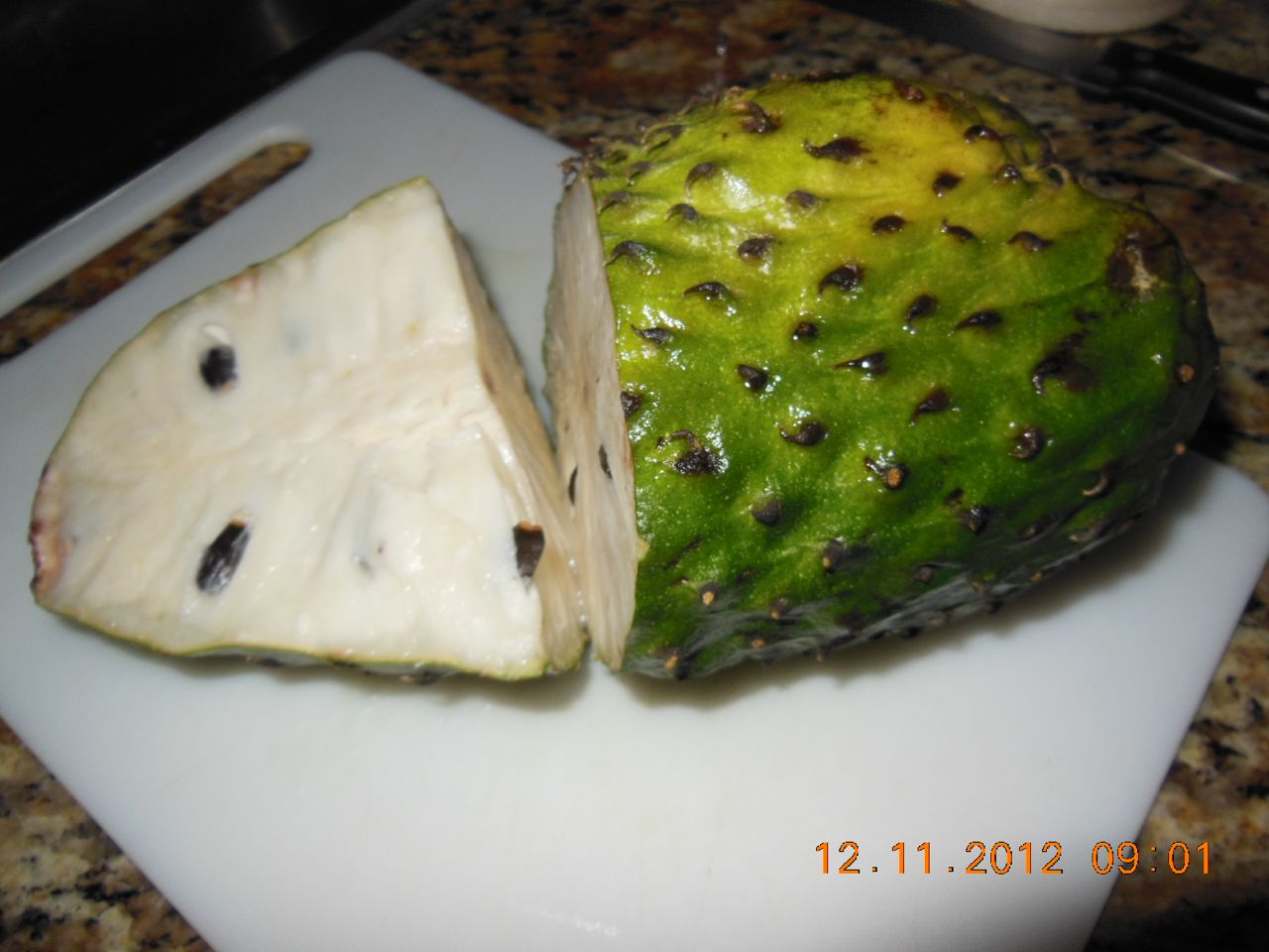 Guanábana fruit